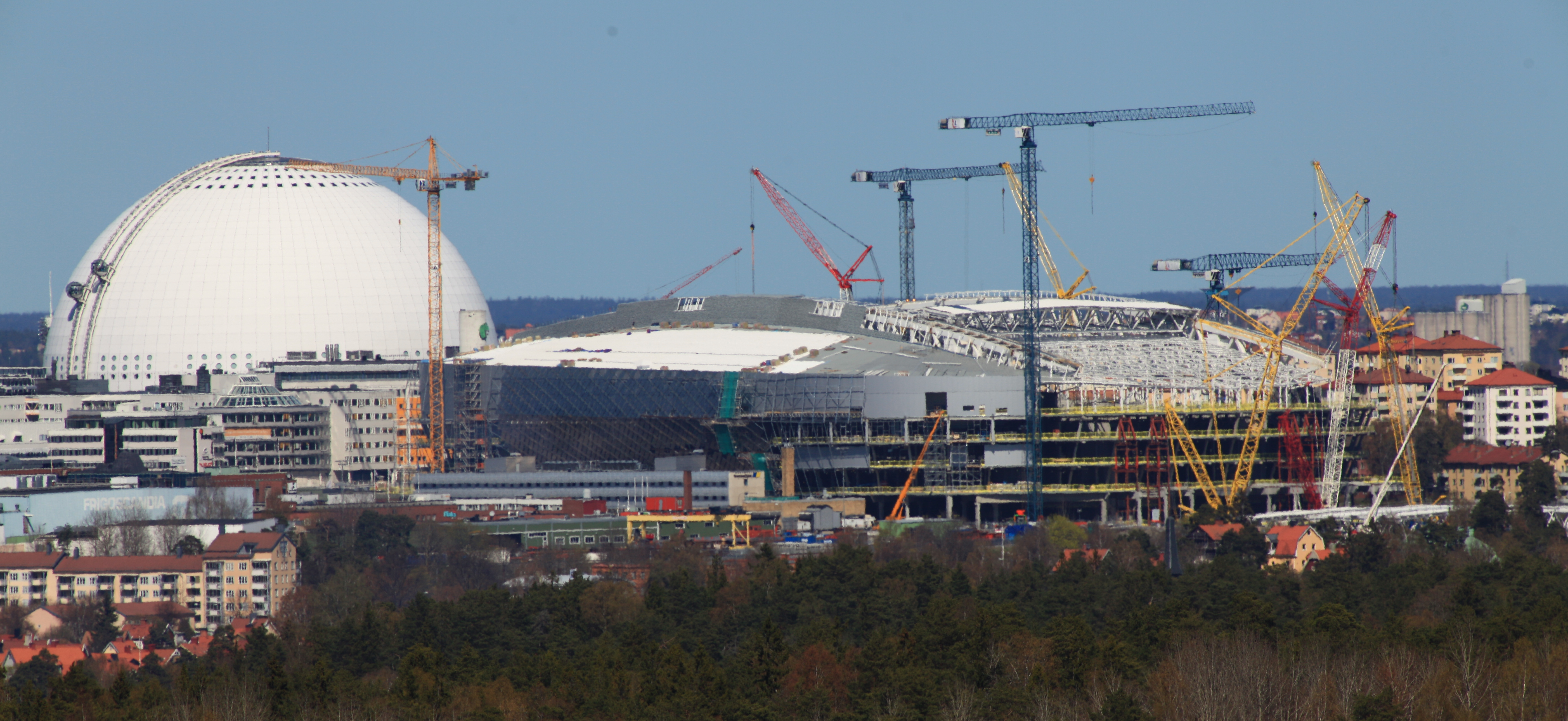 Picture taken from Högdalstoppen. Camera Canon EOS 5D Mark II Exposure 0.002 sec (1/640) Aperture f/9.0 Focal Length 420 mm ISO Speed 100 Exposure Bias 0 EV